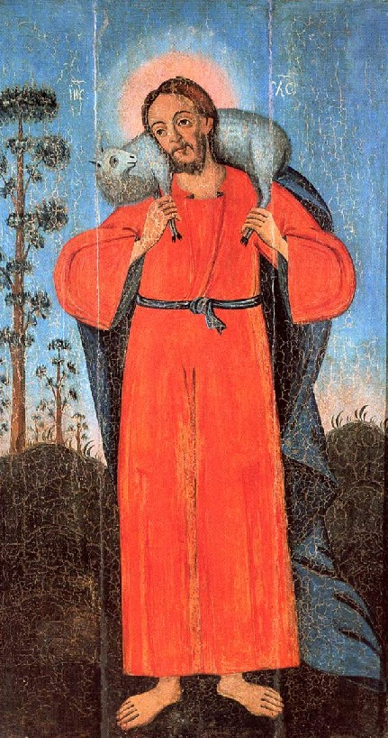 Good shepherd. Icon of Bessarabia (Moldavia)